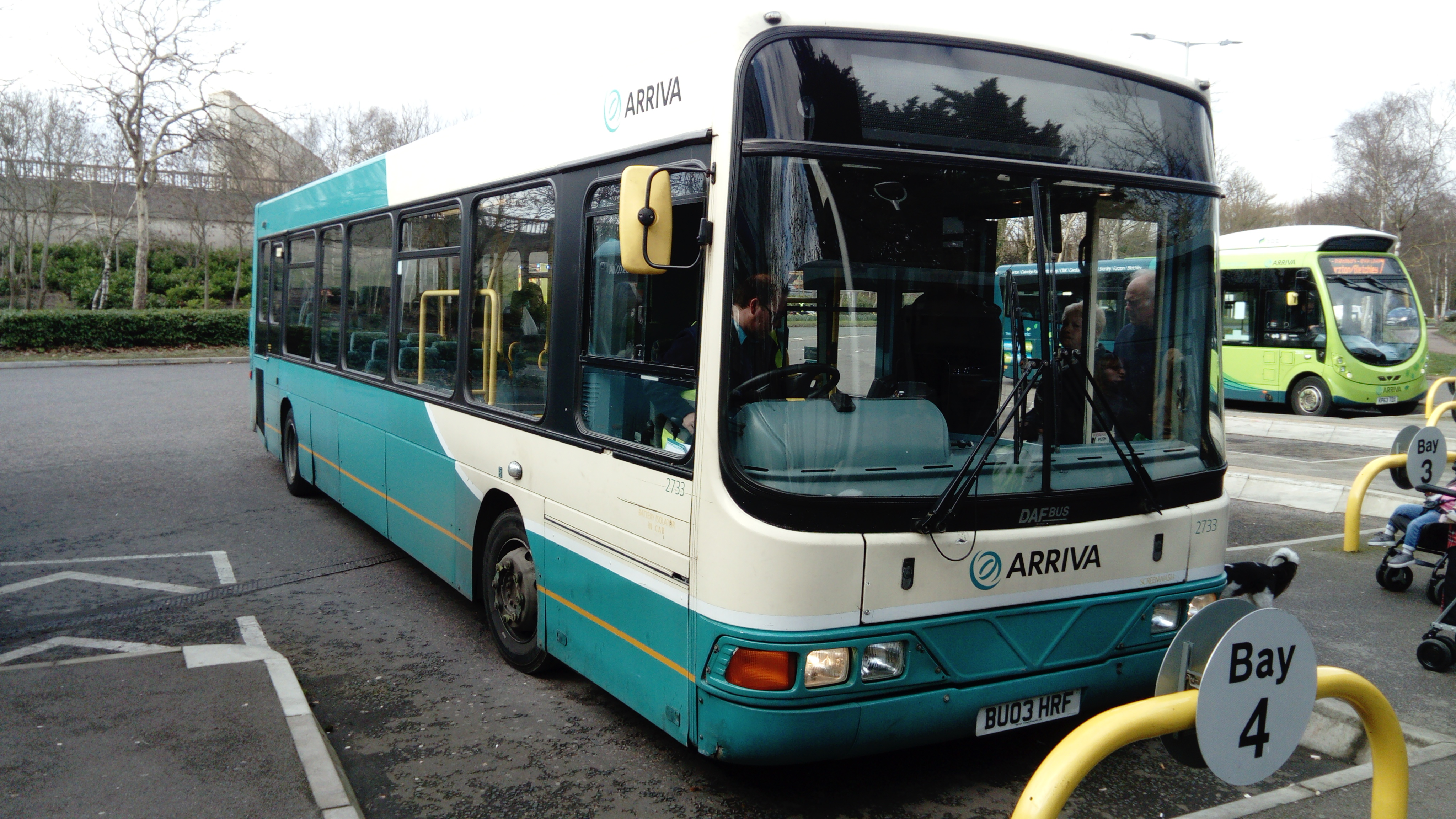 An Arriva DAF SB120/Wrightbus Cadet in Bletchley Bus Station, Milton Keynes in March 2019